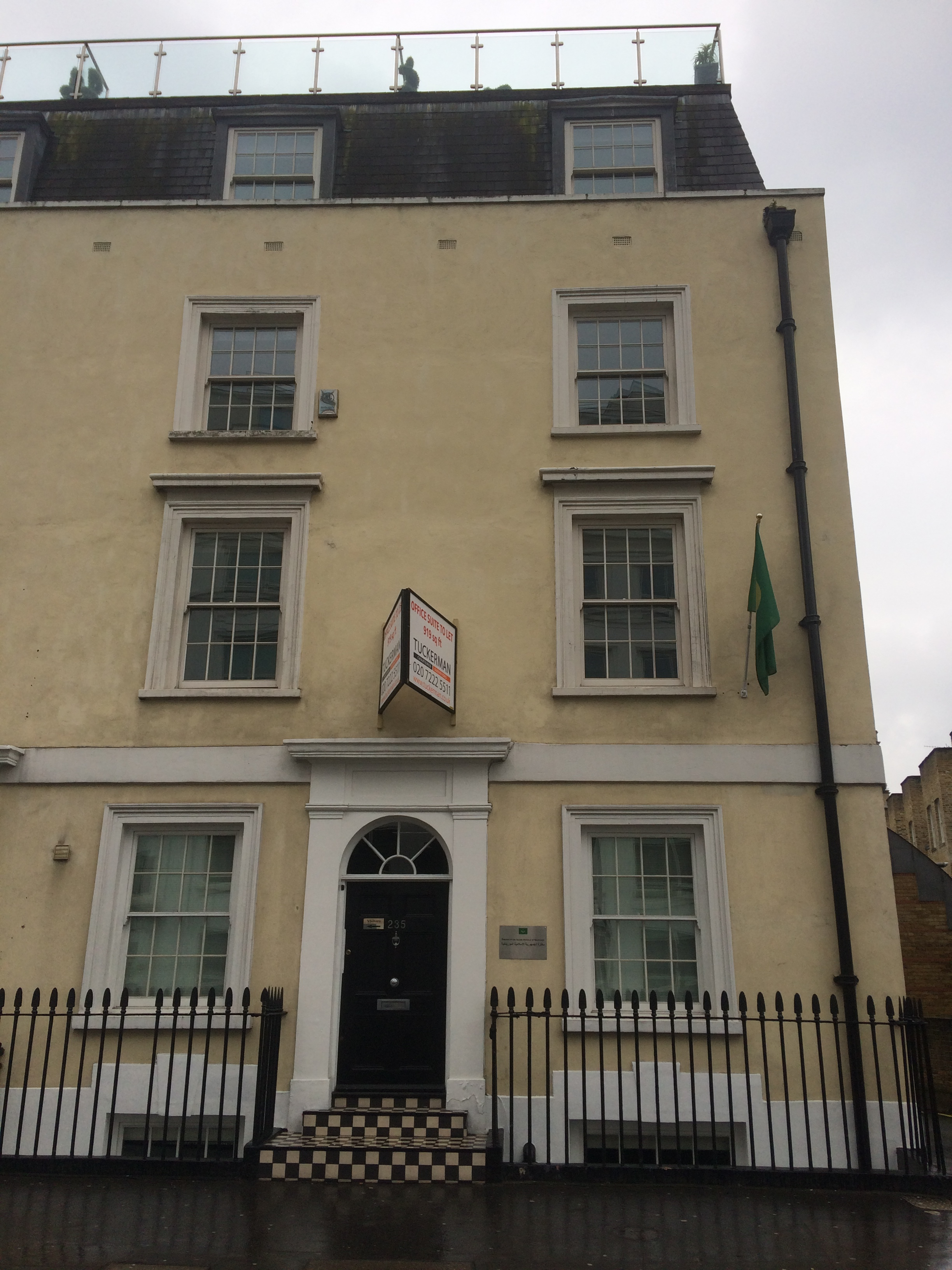 Mauritania Embassy in London 2